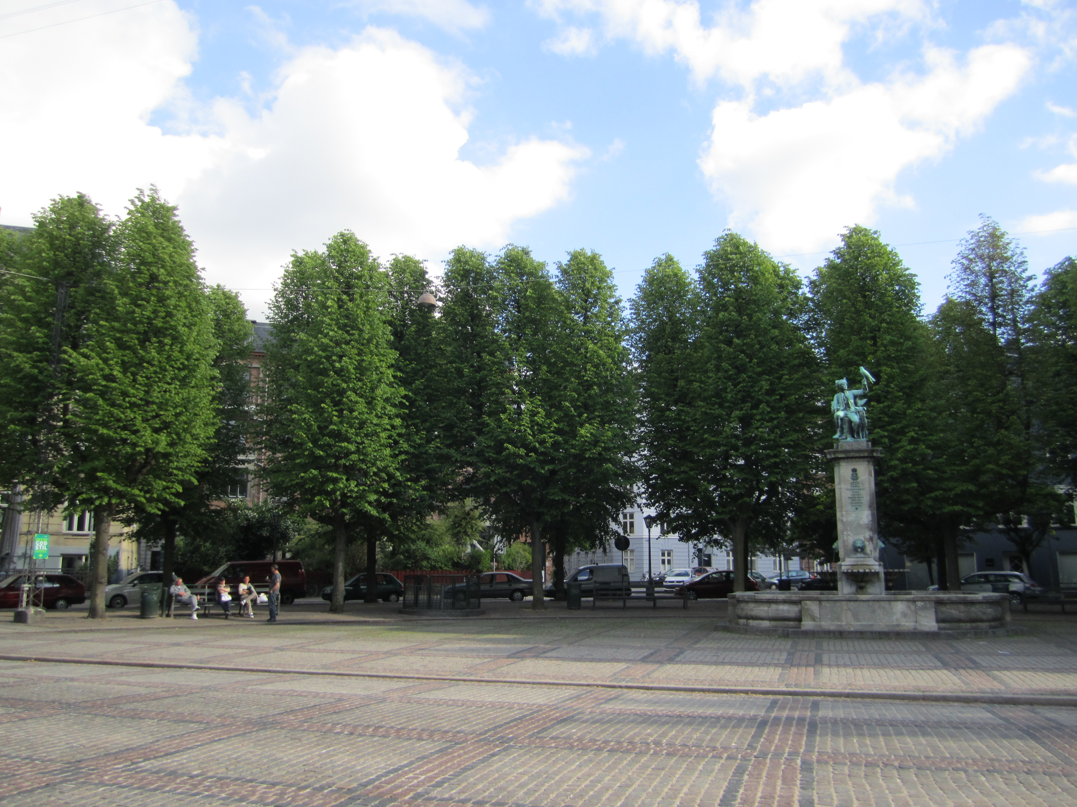 Sankt Thomas Plads, a public plaza at the beginning of Frederiksberg Allé in Copenhagen, Denmark